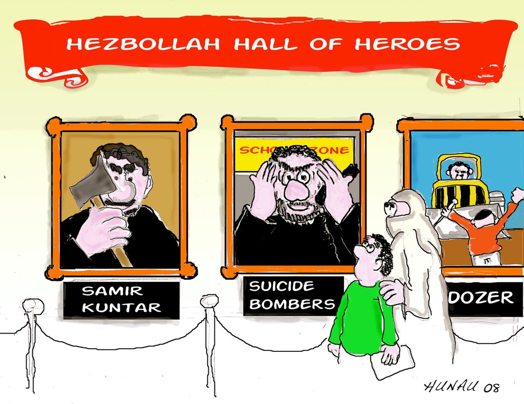 Hezbollah hall of heroes.The first frame refers to Samir Kuntar, who brutally murdered the father and his 4-years old daughter in Israel. The middle frame refers to homicide attacks that terrorists from Hezbollah, HAMAS and other terror groups are carrying out in Israel on the regular basis. The last frame refers to two Jerusalem bulldozer attacks on civilian citizens in Israel, in wich at least three people were killed and dozens were wounded.